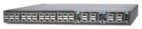 Juniper Networks QFX5100 ethernet switch